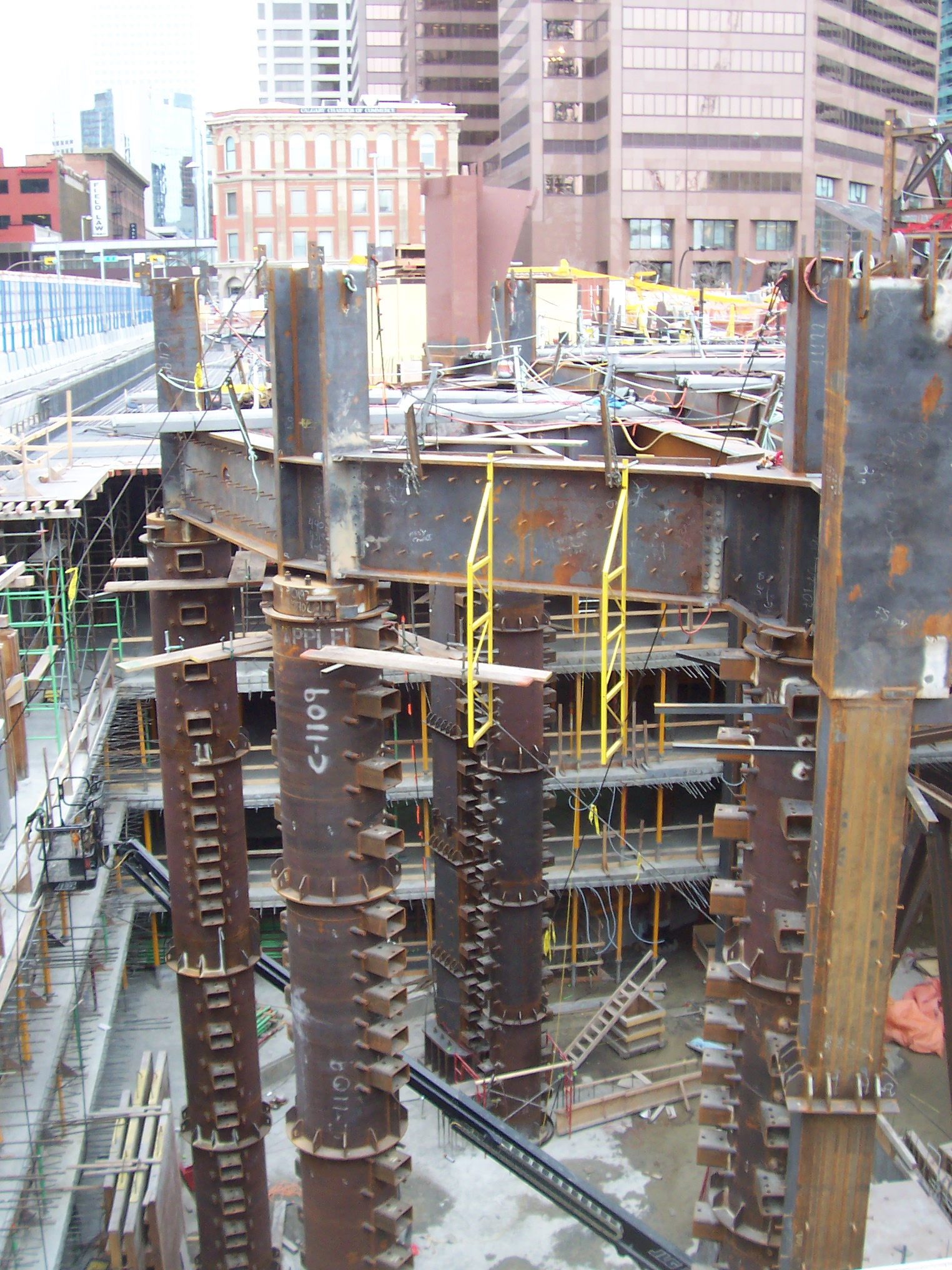 West facing view of the Bow's foundation.